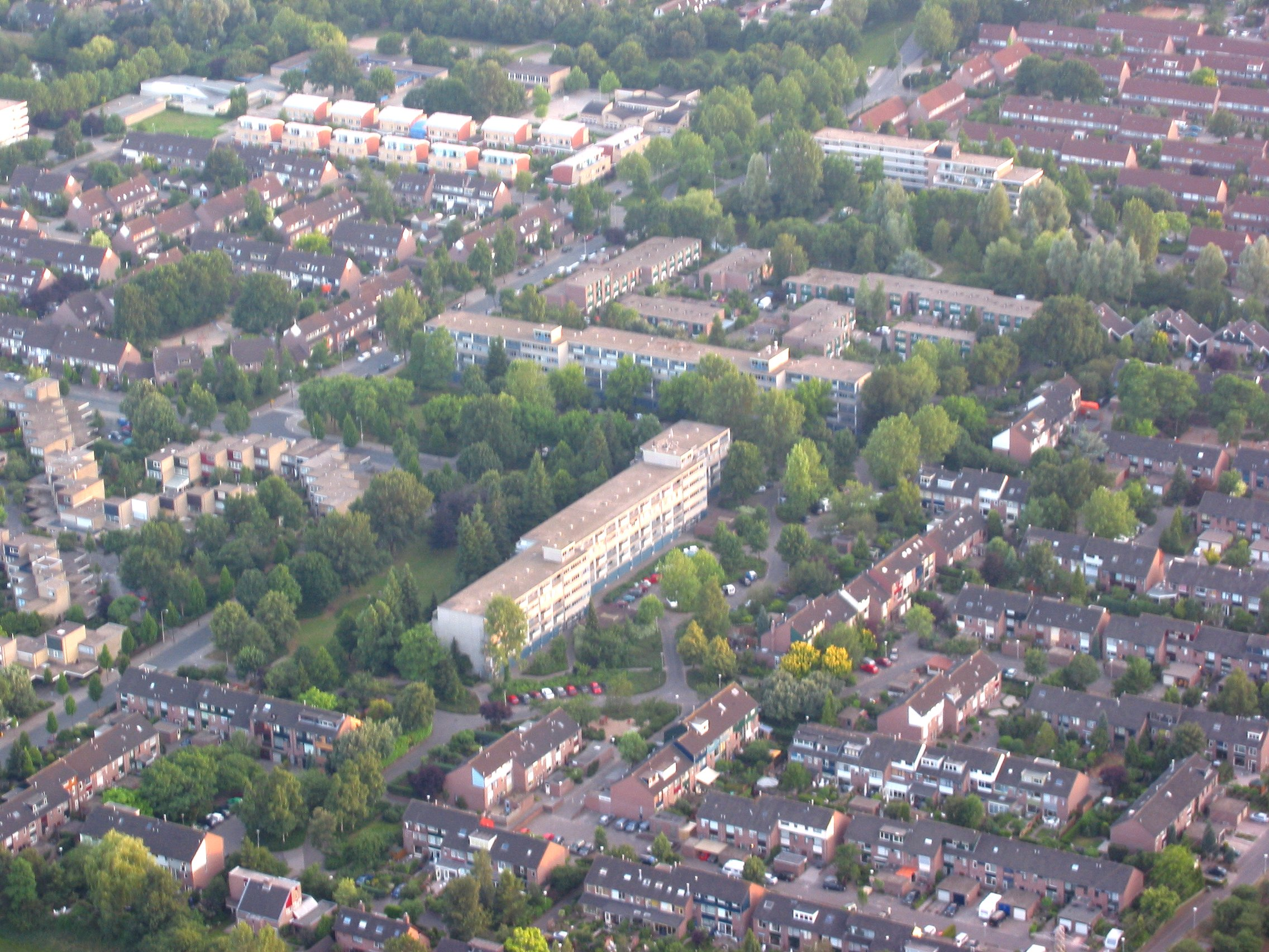 Picture taken by myself: Ede, the Netherlands